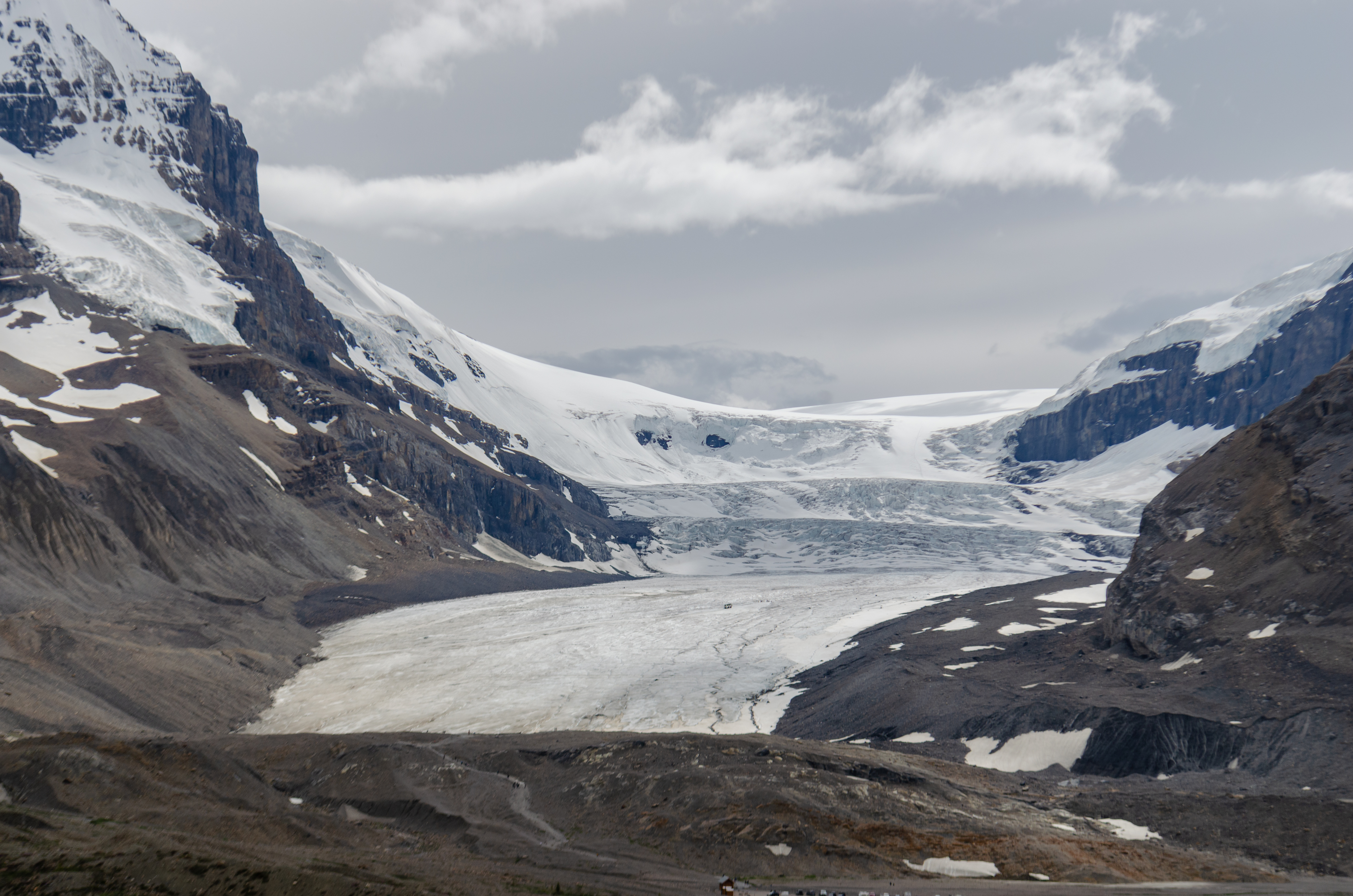 Athabasca Glacier on the Columbia Icefield, Jasper National Park.